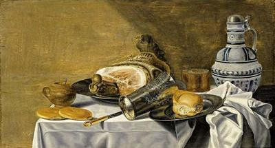 Still life with ham, bread and beer on a table with a white tablecloth, signed with "remains of a monogram" and dated 1643